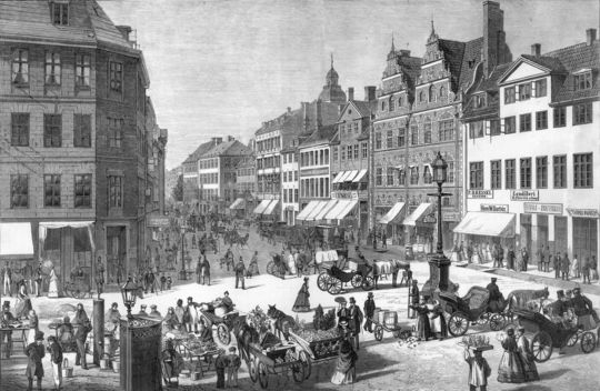 A wwod print from Illustreret Tidende, February 9, 1868, showing Amagertorv in Copenhagen, Denmark